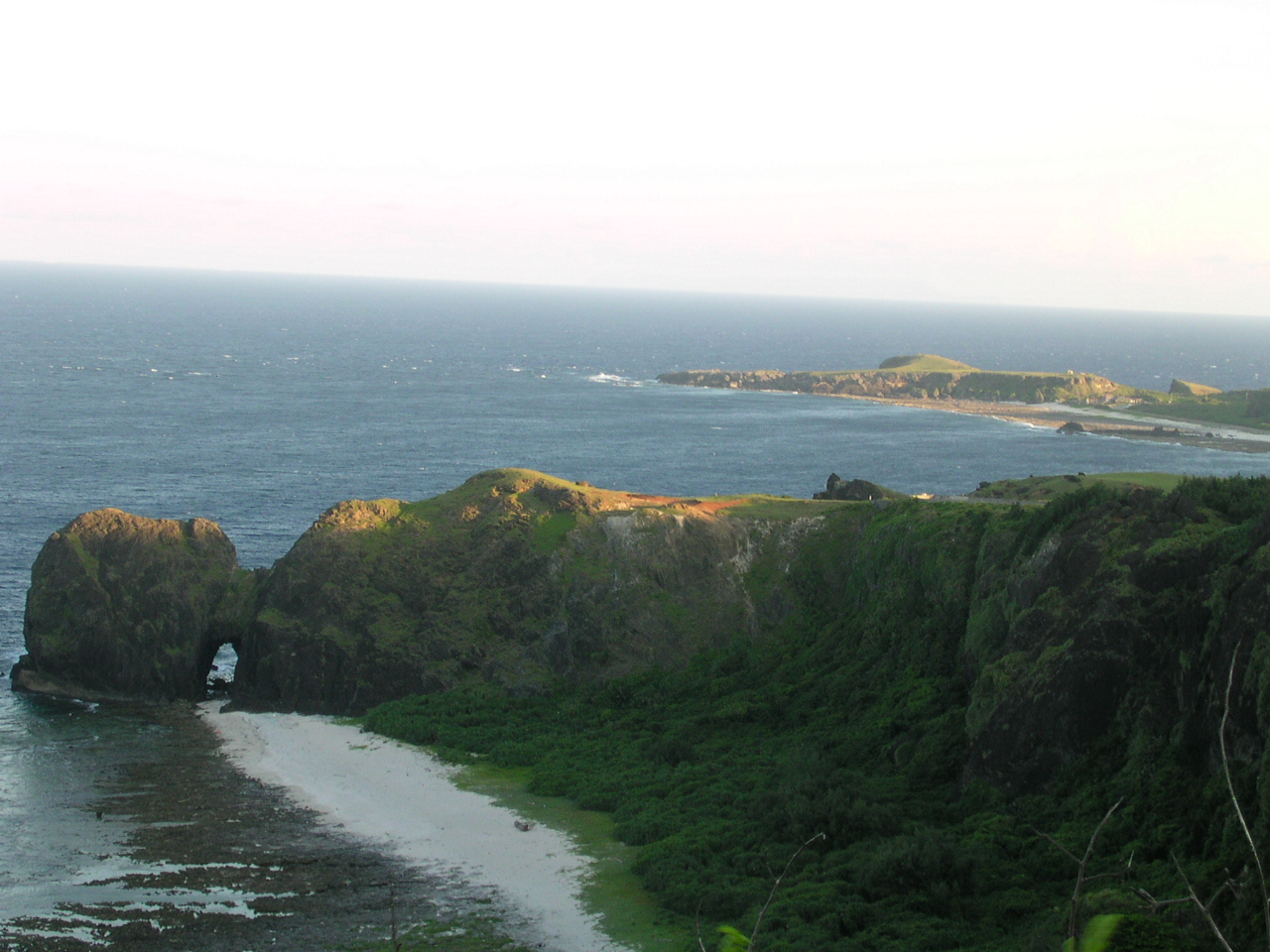 this photo taken by vegafish